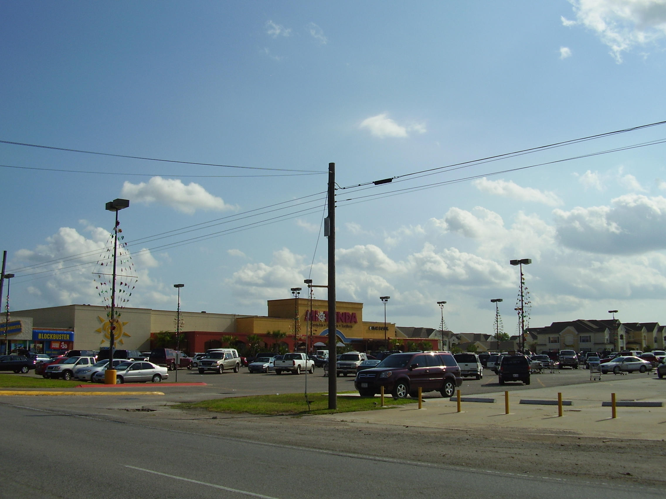 Mi Tienda, a supermarket in South Houston, Texas